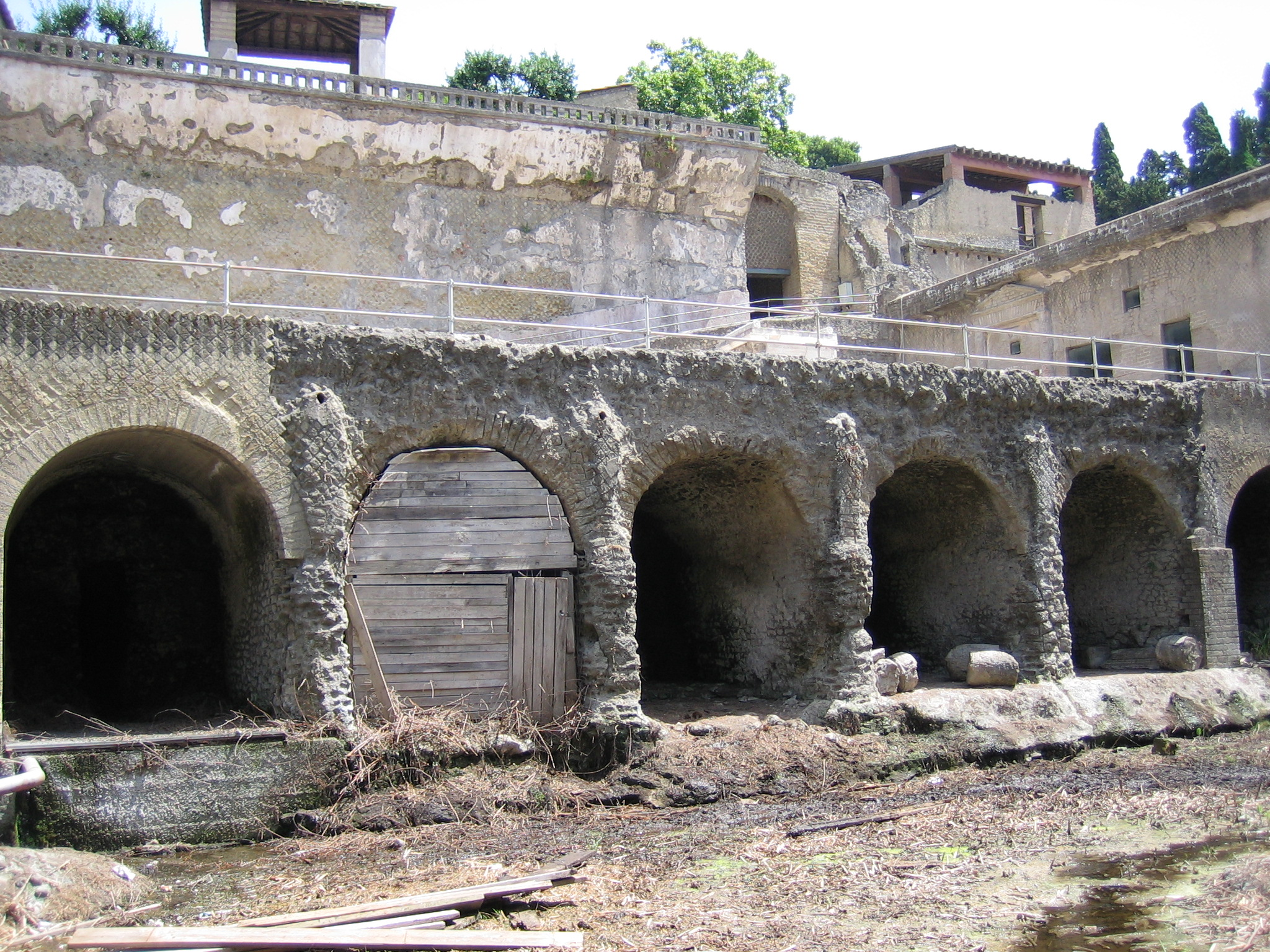 Boathouses in Herculaneum.